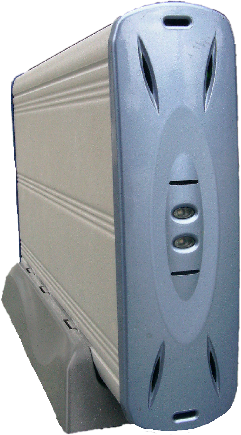 Removable hard disk I took it myself.